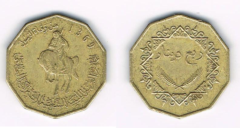 quarter dinar coin from Libya